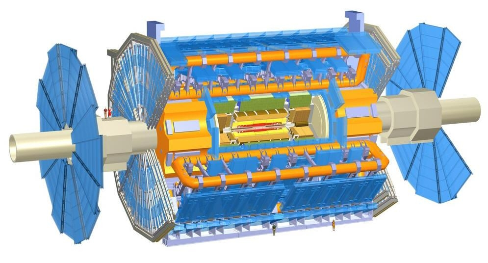 ATLAS experiment